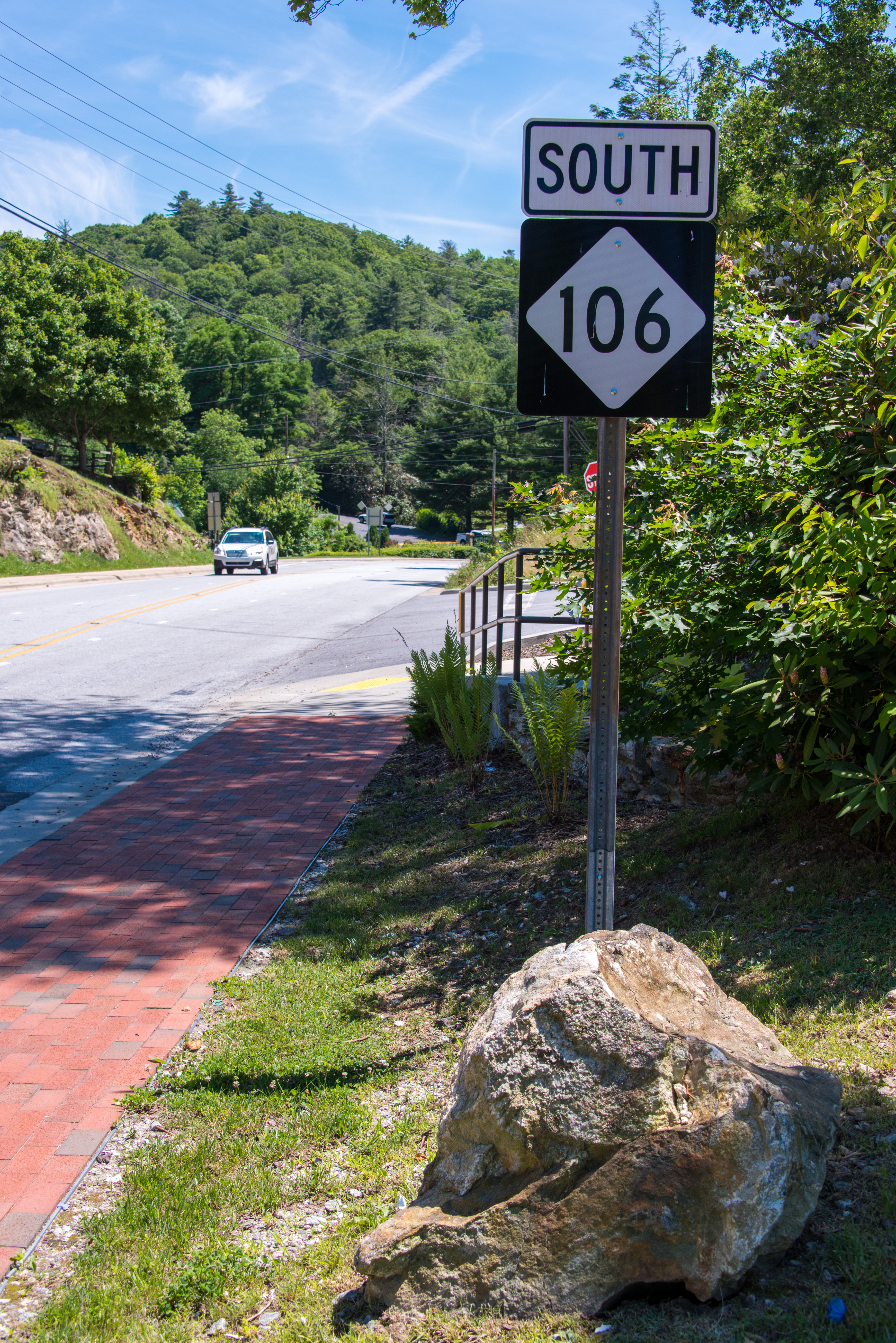 First sign of southbound NC 106, located along Dillard Road, in Highlands, North Carolina.